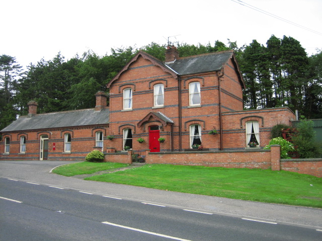 Tullymurry Railway Station (ex) This station was on the Belfast & County Down Railway line between Downpatrick and Newcastle. It was built in 1896 replacing an earlier station 1/4 mile SE built in 1871. The line was closed (like many others) by the Ulster Transport Authority in 1950. It has been converted to a private dwelling.